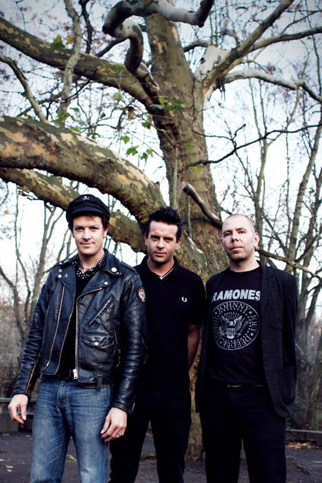 The Living End posing for a photo in Leipzig during their European tour 2009